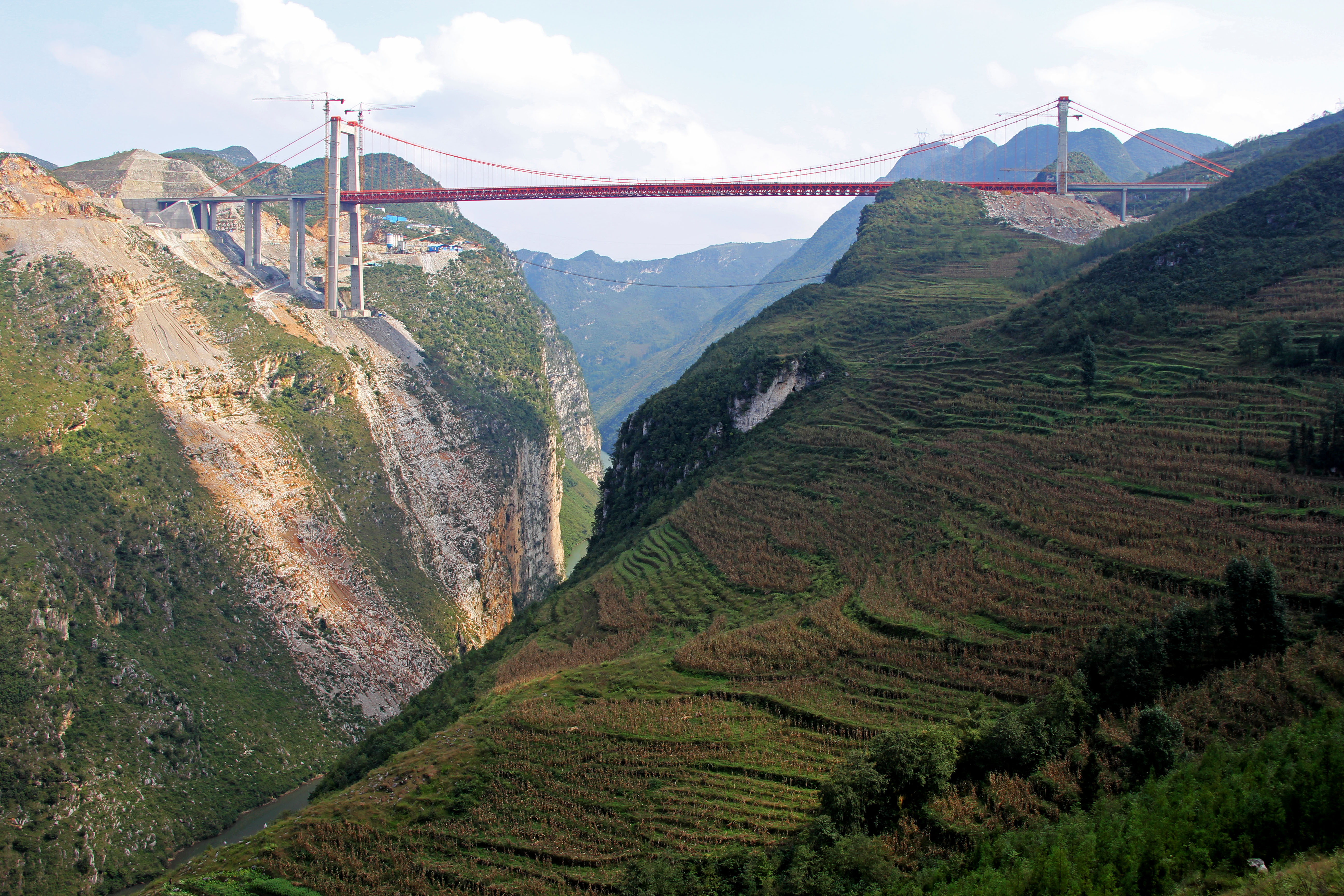 Dimuhe Bridge view looking south.